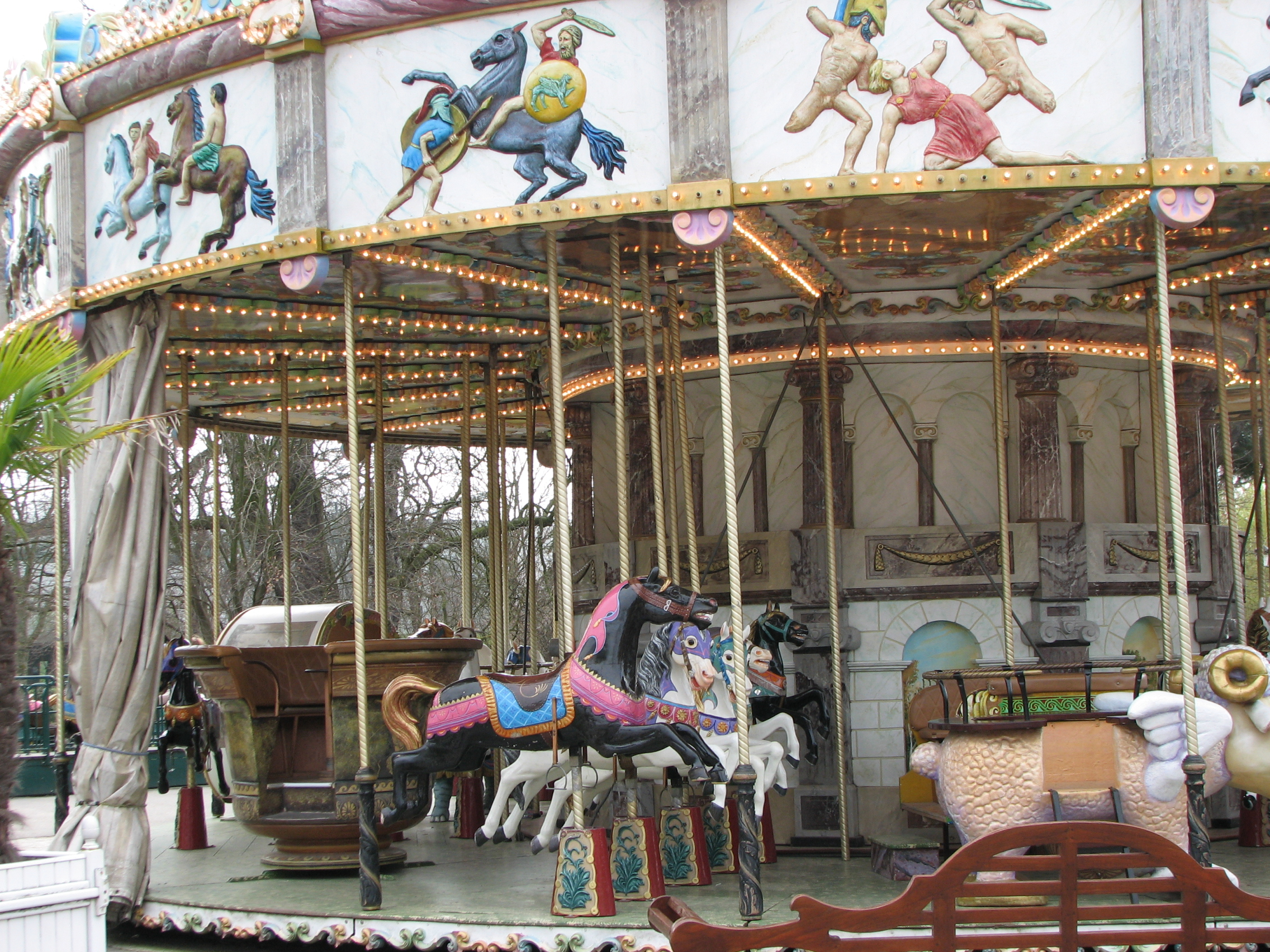 Small carousel